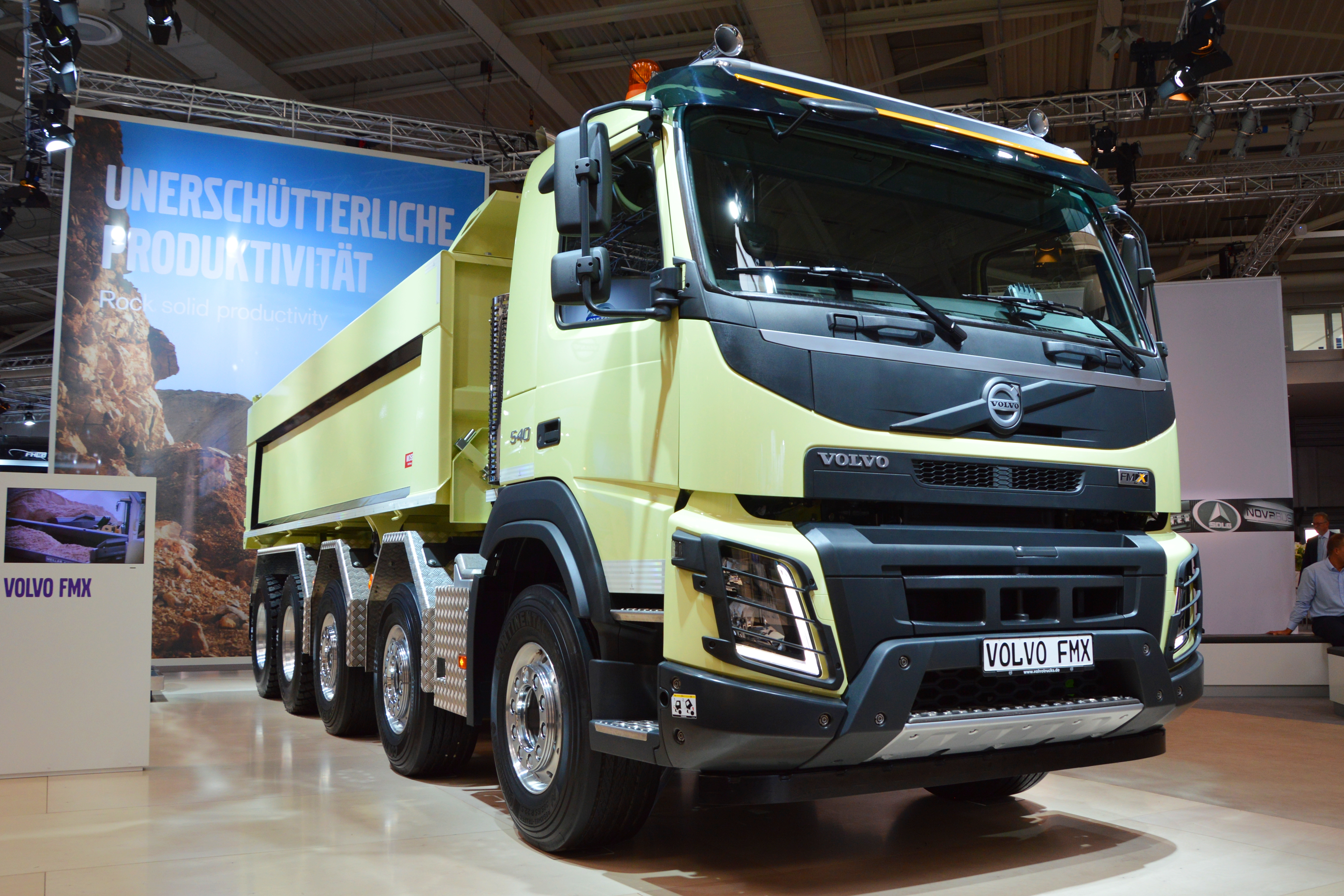 Volvo FMX 10x4 dump truck. Photo taken at exhibition IAA 2014 in Hanover, Germany.